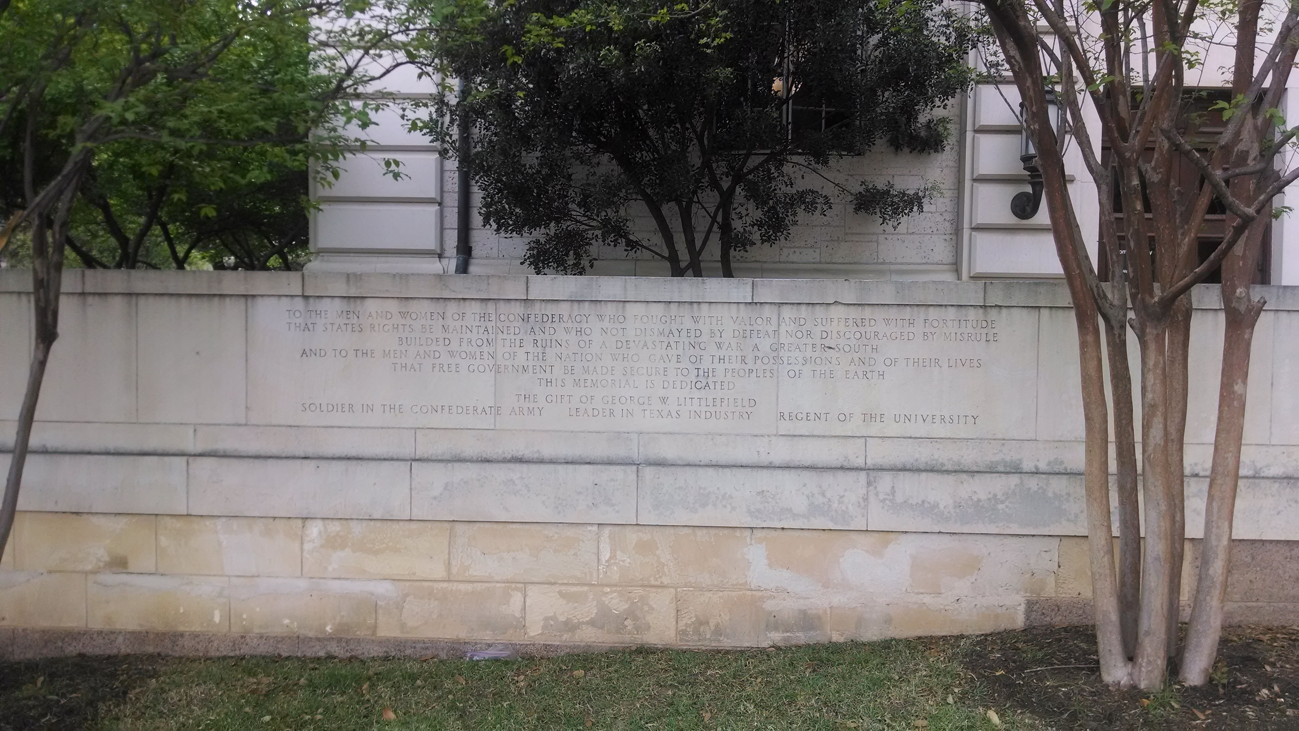 A dedication inscription at the Littlefielf fountain at the University of Texas. No longer present.